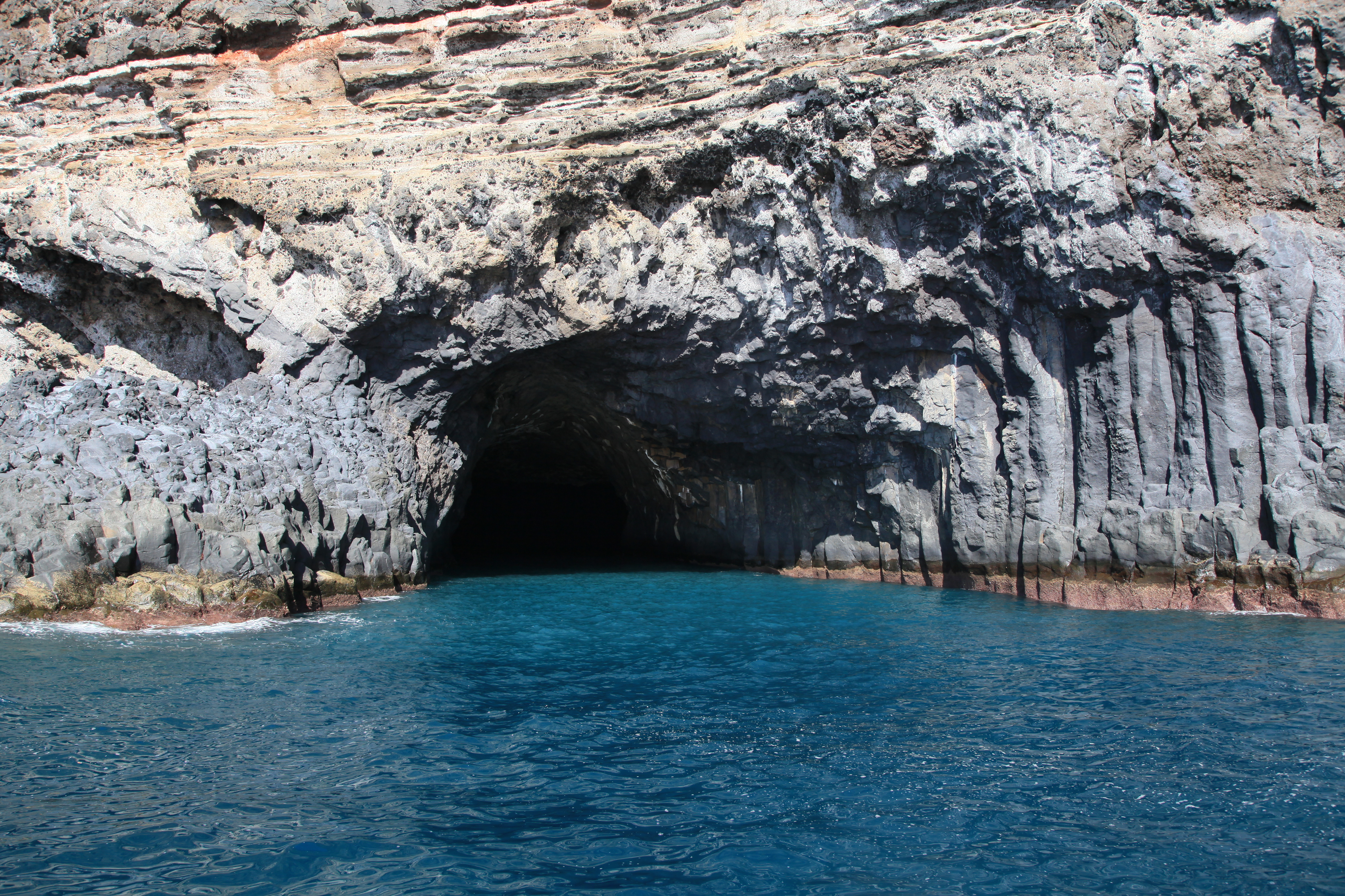 View from ship Fancy II to the Cueva Bonita at the coast of Tijarafe, La Palma, Canary Island, Spain